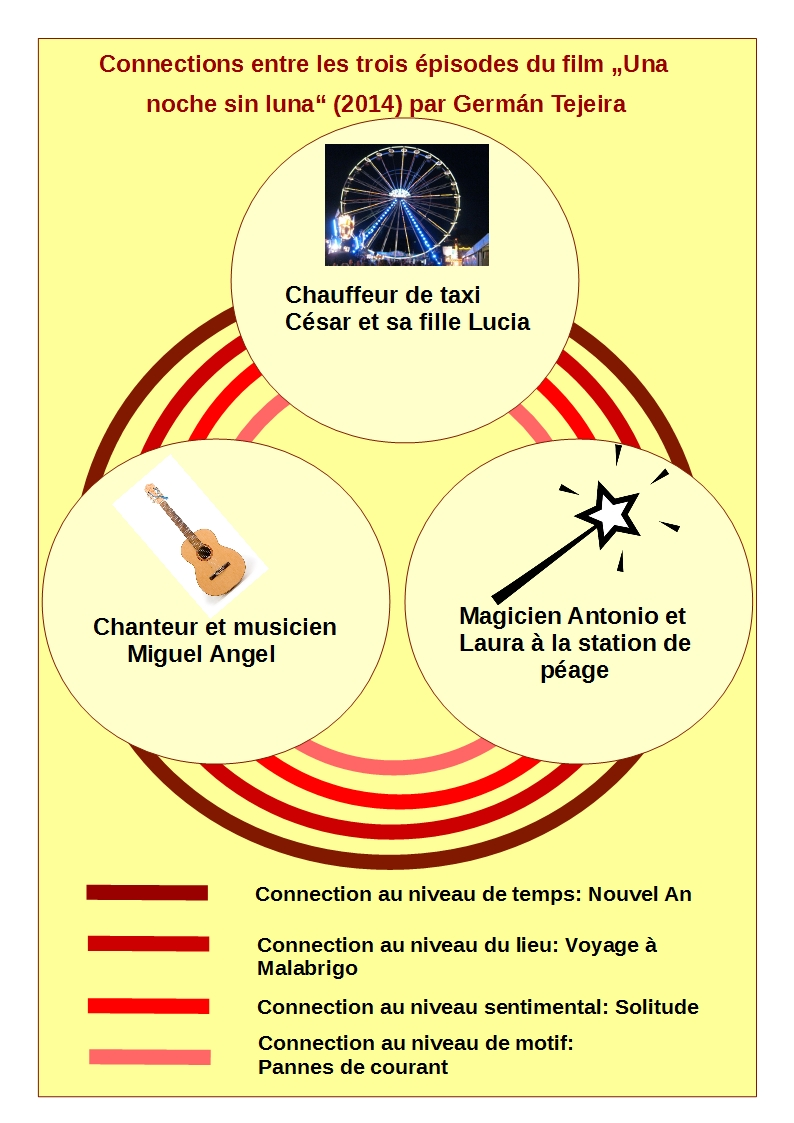 Infographics explaining the connection between the three episodes in the movie "Una noche sin luna" (written in French)